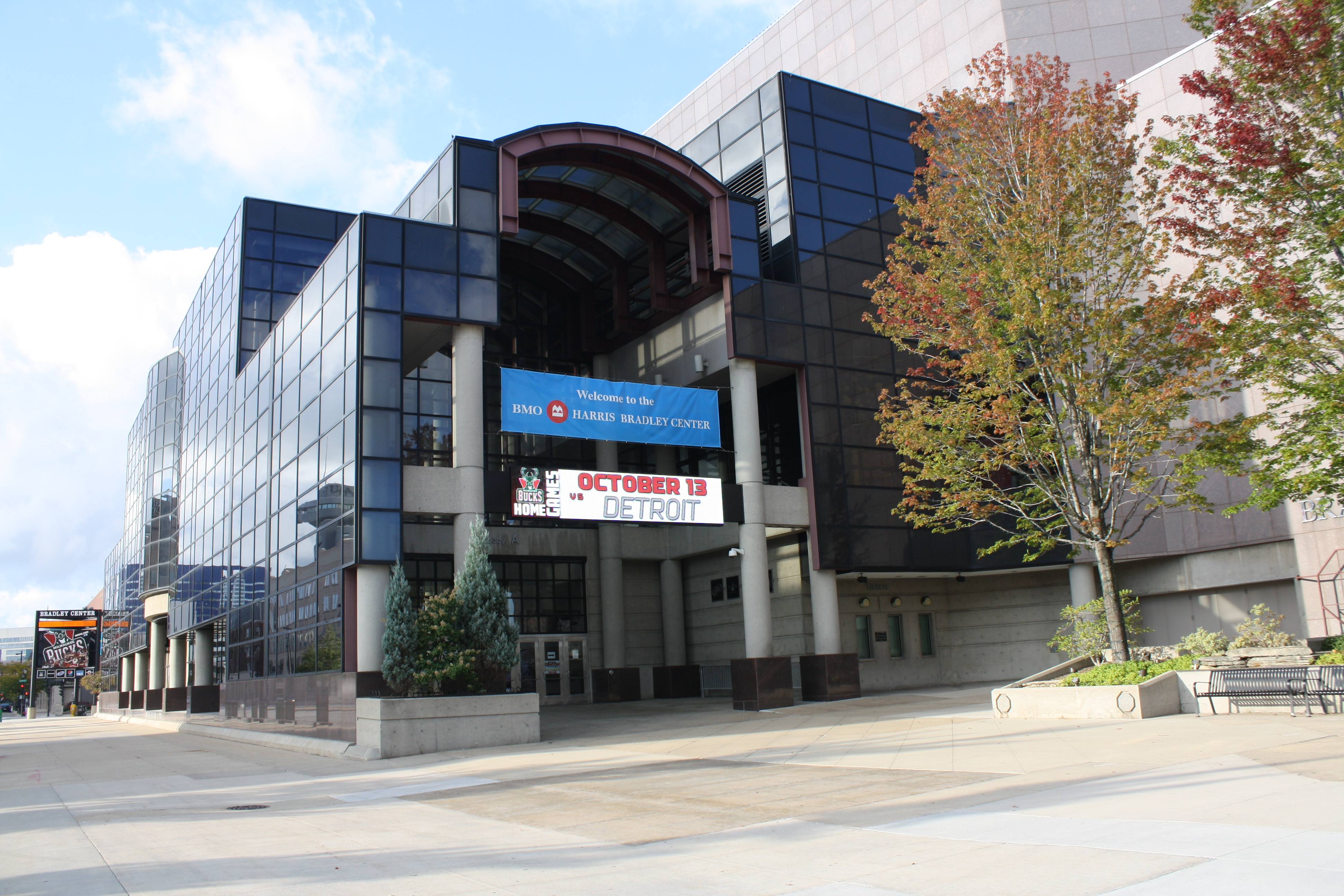 The northeast entrance to the BMO Harris Bradley Center.